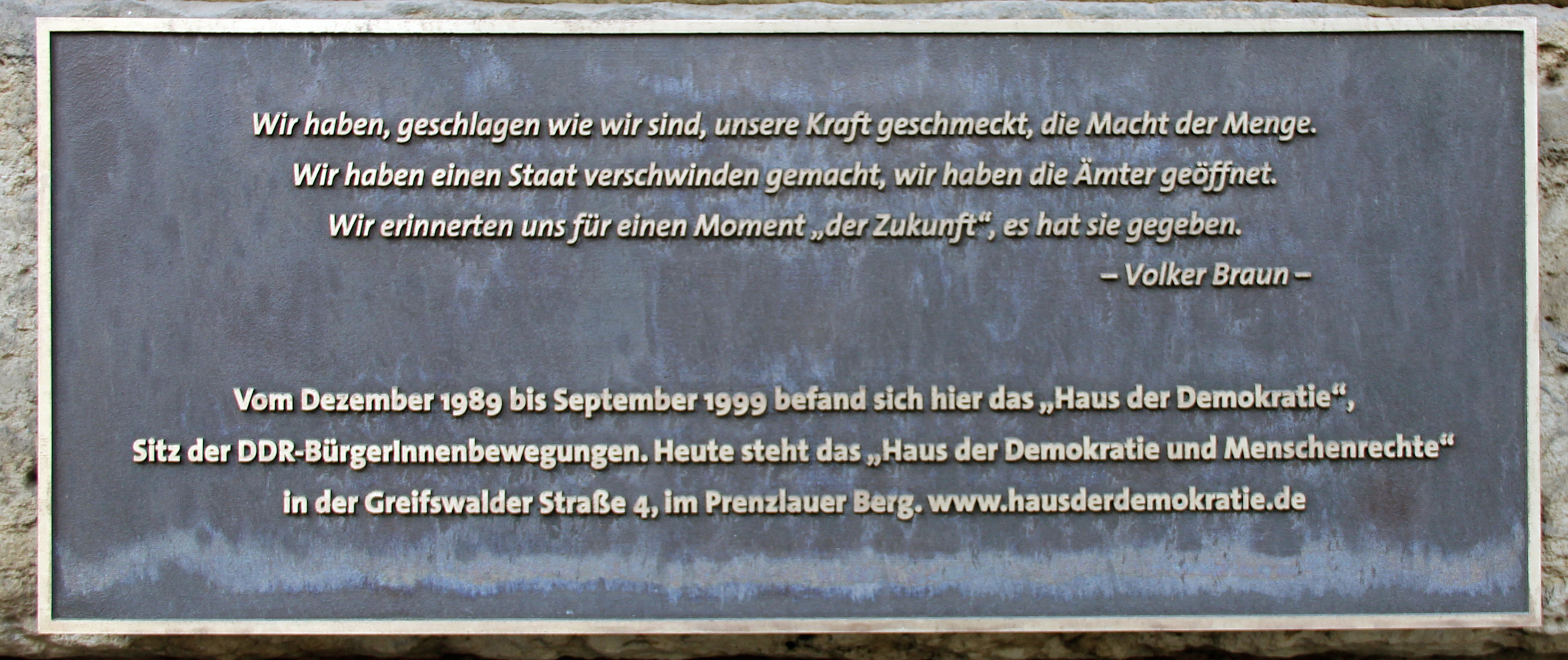 Memorial plaque, Haus der Demokratie, Friedrichstraße 165, Berlin-Mitte, Deutschland